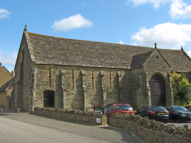 The Old Barn, Abbey Manor Park, Yeovil